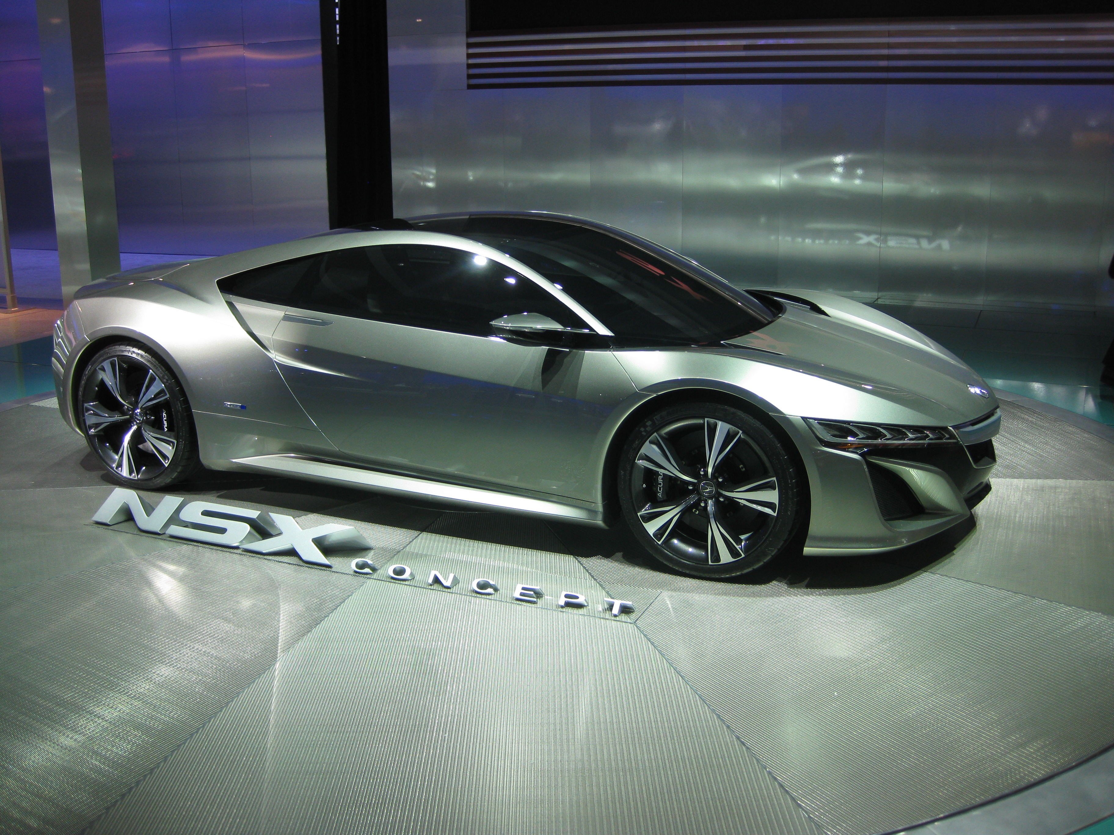 For more info and images please check